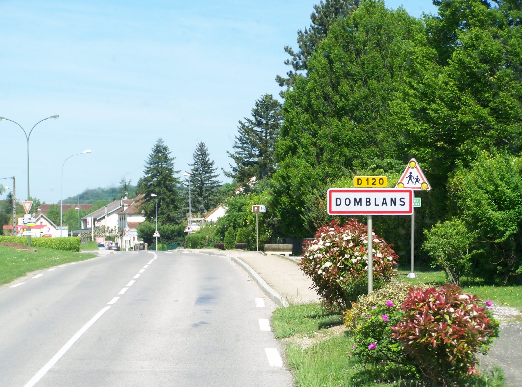 Sign welcoming to the French village of Domblans in Jura.